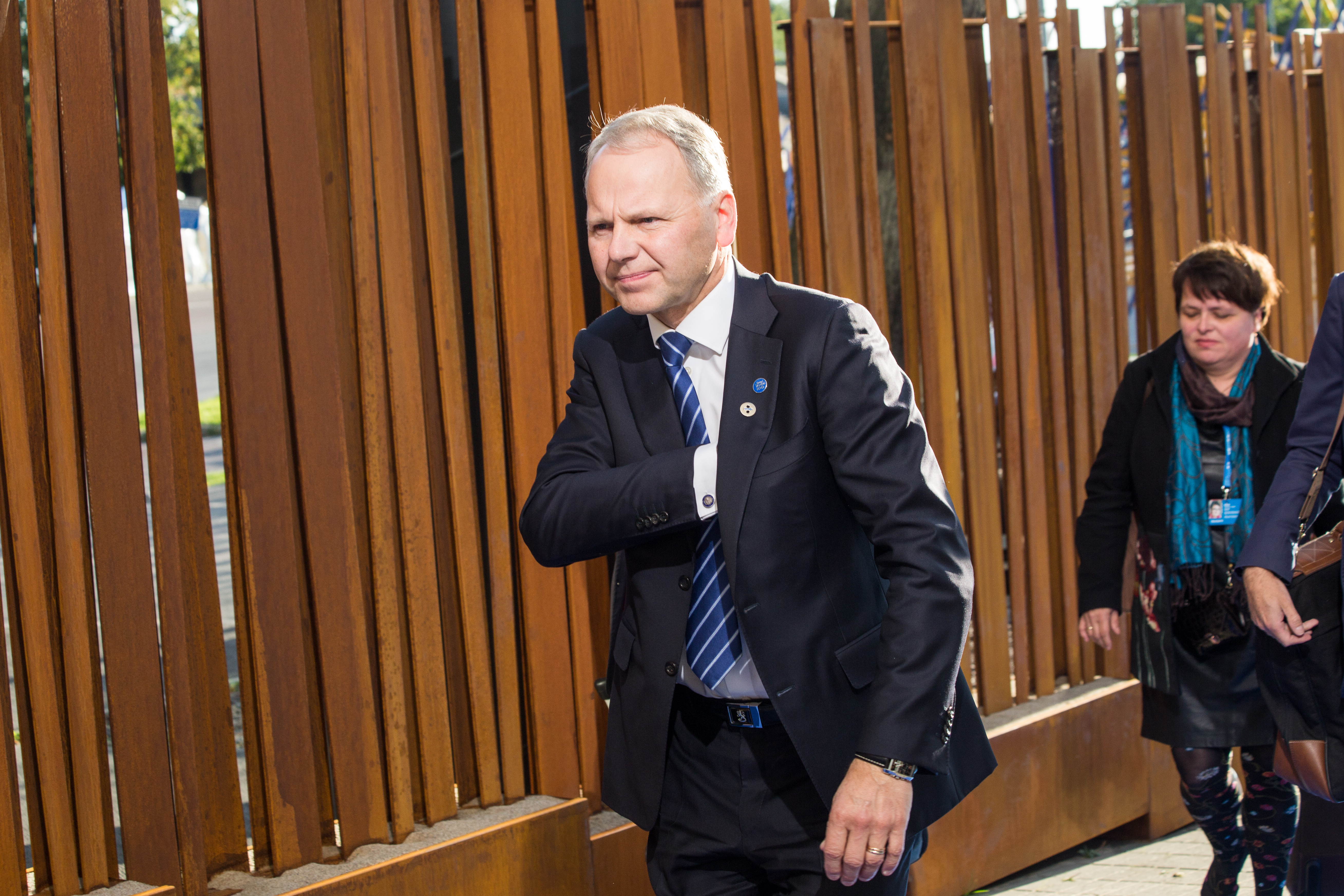 Jari Leppä, Minister, Ministry of Agriculture and Forestry, Finland Photo: Aron Urb (EU2017EE)